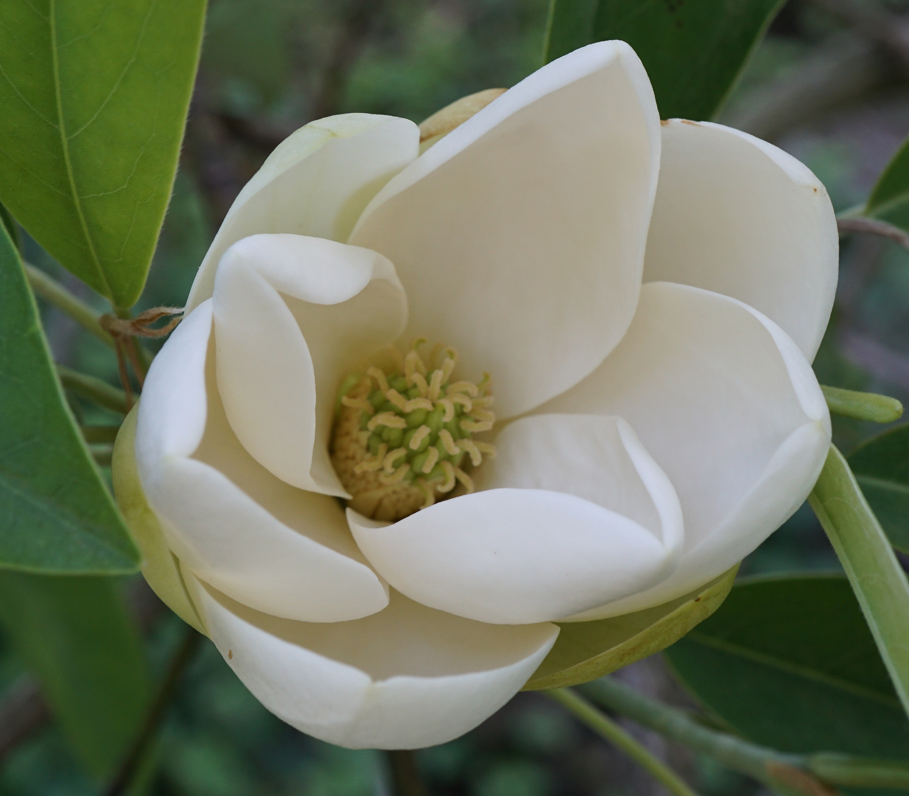 Magnolia virginiana var. australis flower.​ Arnold Arboretum of Harvard University, accession #1275-80*A​. ​